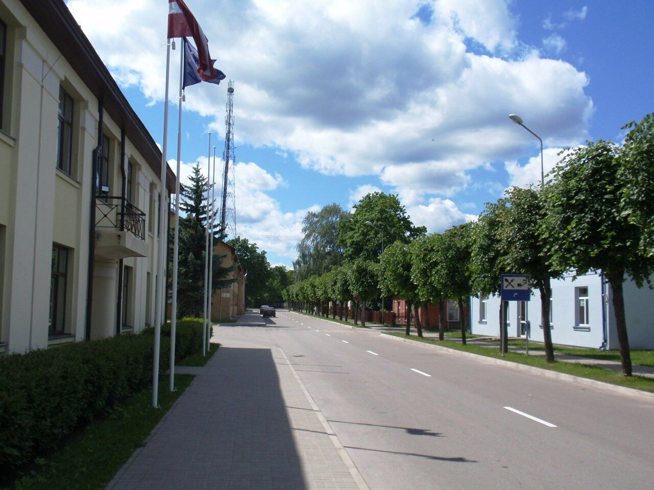 Semināra iela in Valka, Latvia.